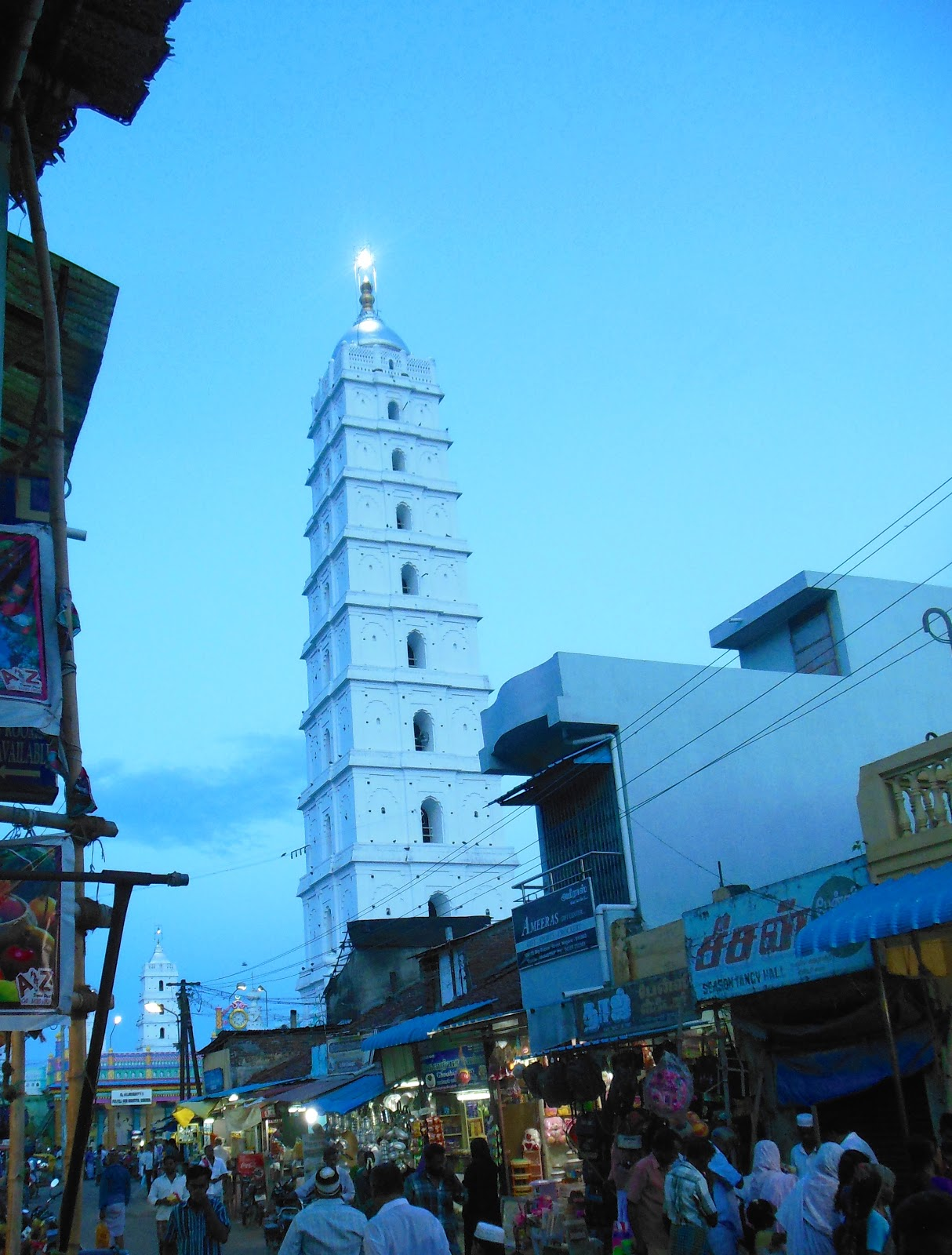 Photograph by Keith E. Cantú